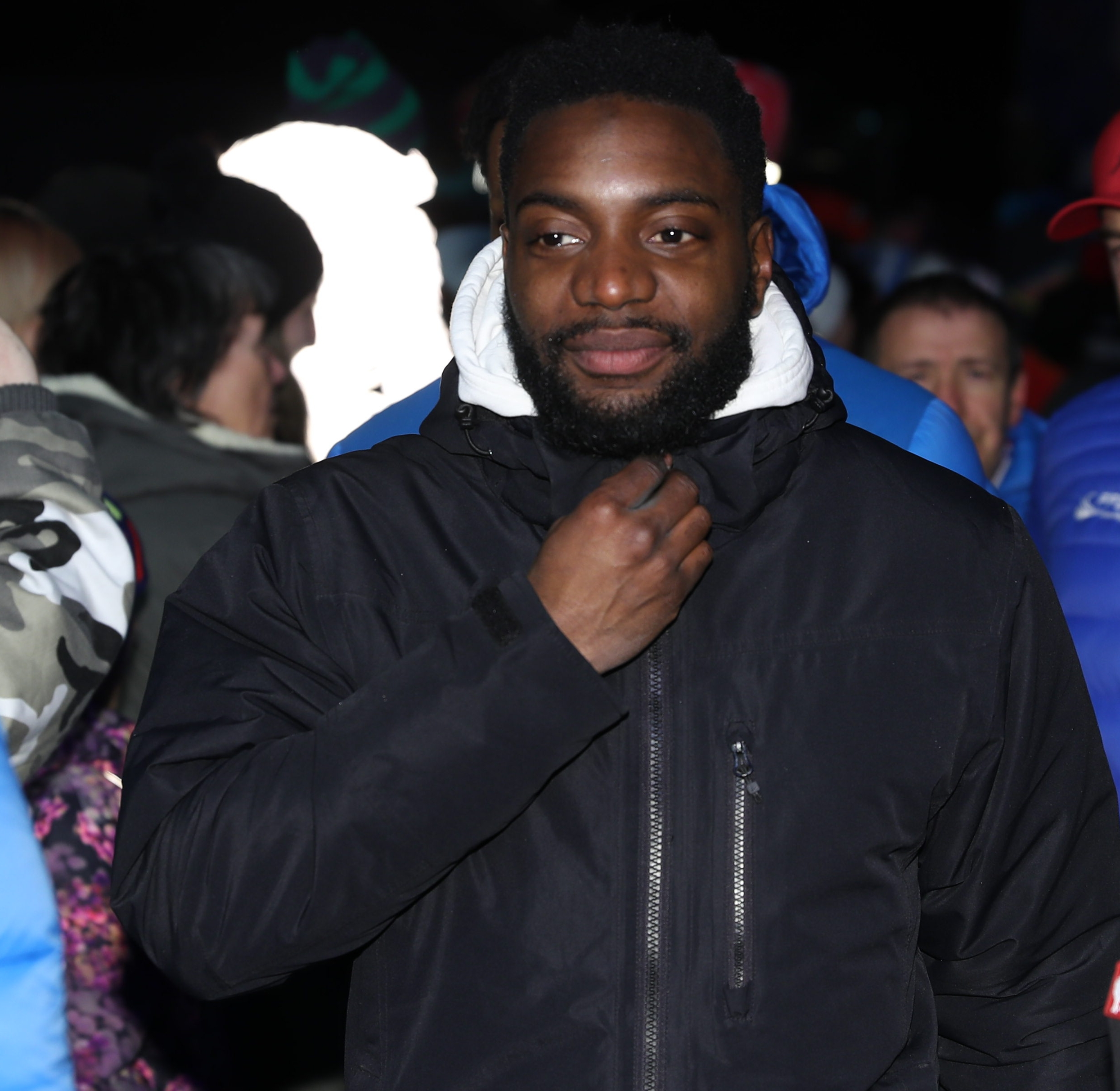 Opening Ceremony at the Bobsleigh and Skeleton World Championships 2020 in Altenberg